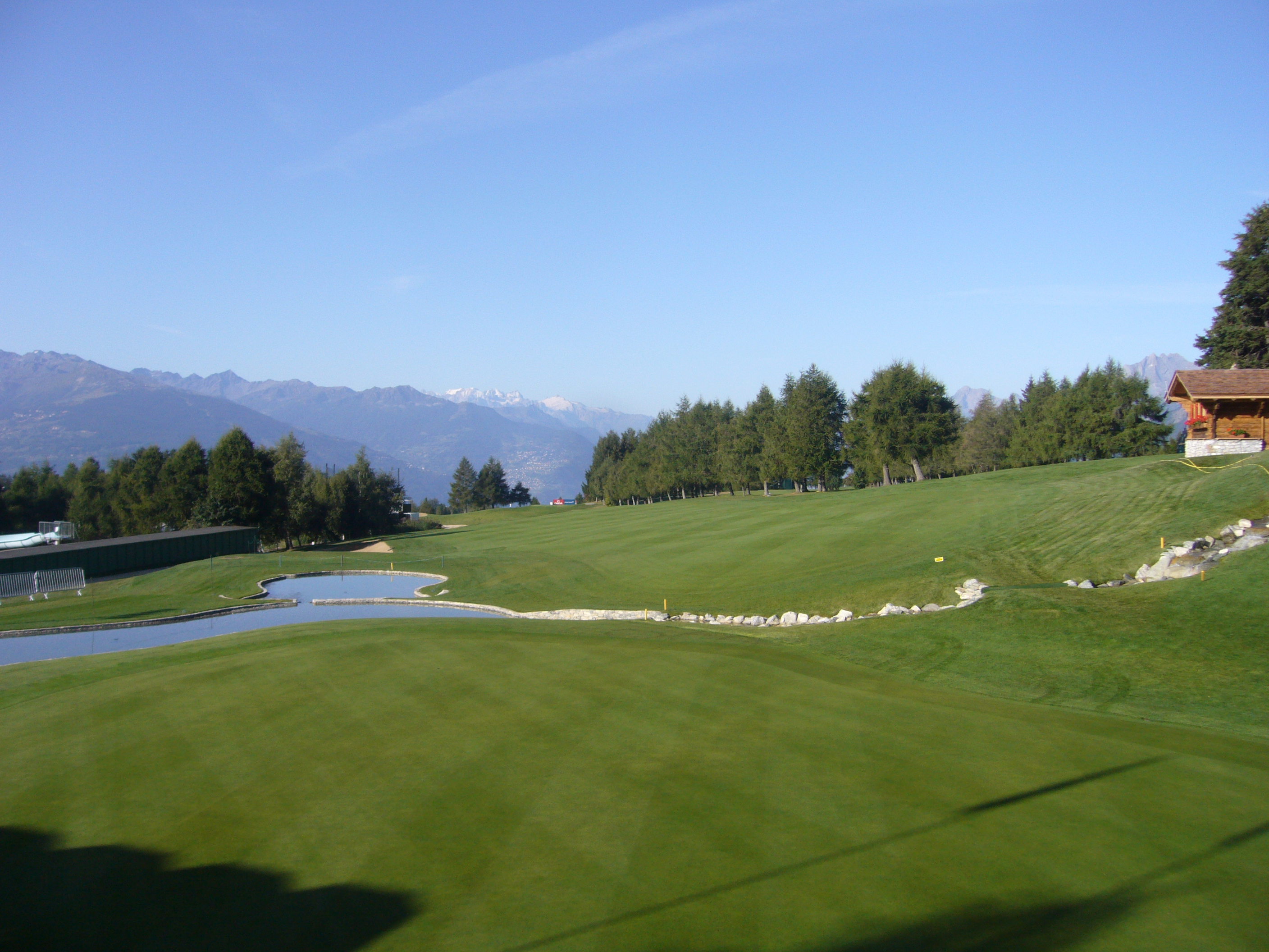 Crans Golf Club, new 18th hole